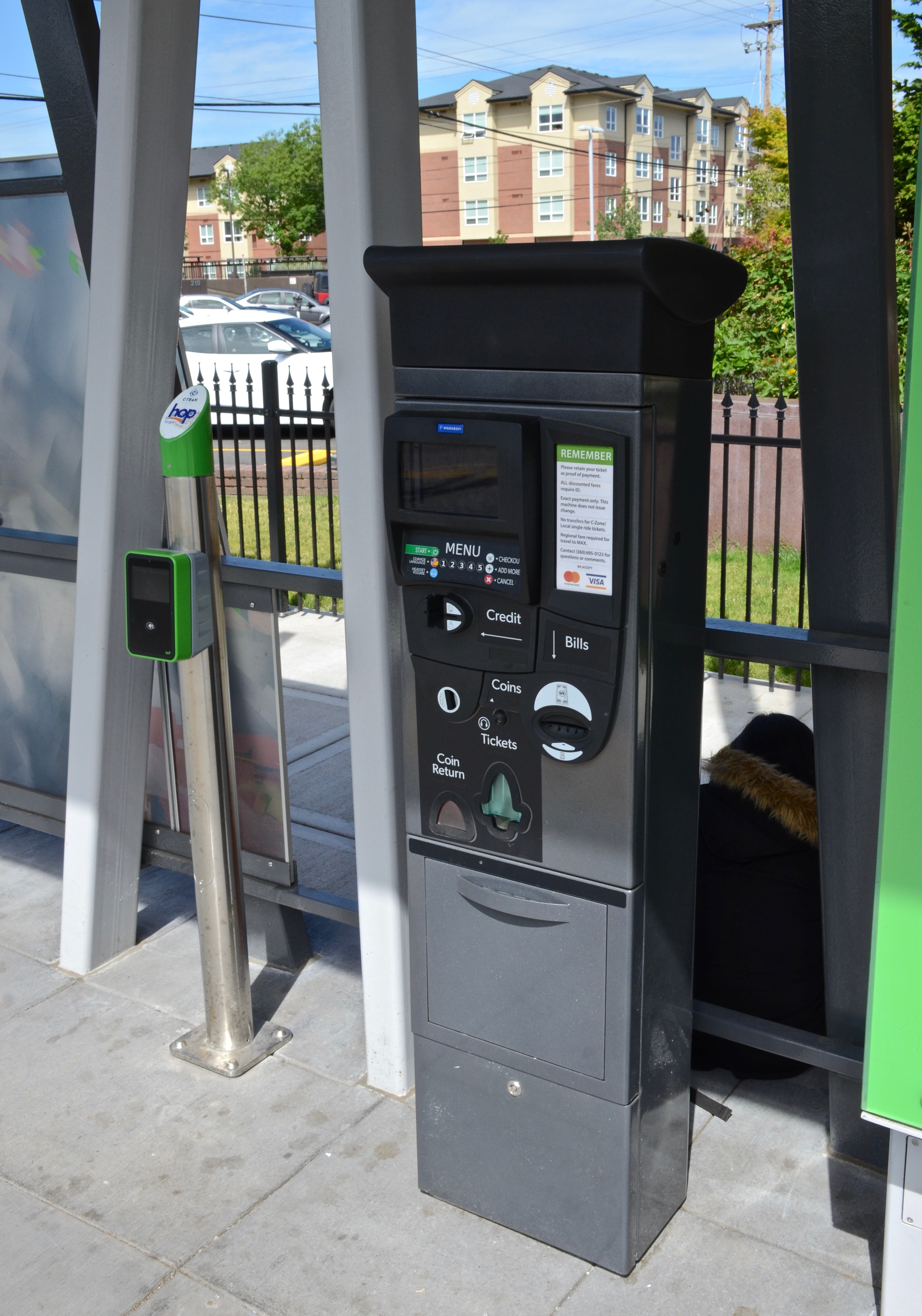 Hop Fastpass reader and ticket vending machine at a station on C-Tran's "The Vine" service. These are at the "Broadway & 13th" station (northbound on Broadway at 13th St.) in downtown Vancouver.